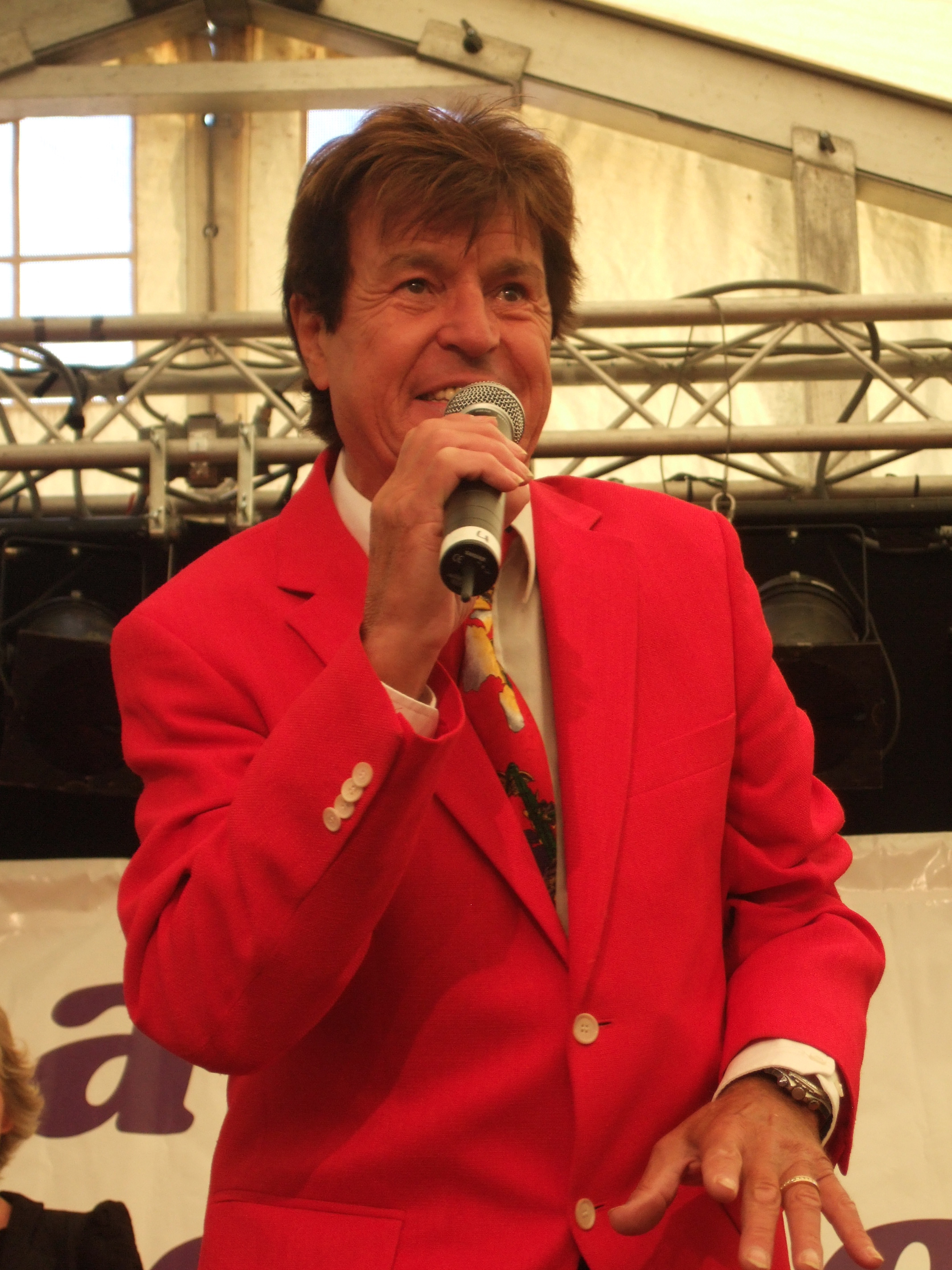 Freddy Breck performing one of his last concerts in Schwalmstadt-Hephata, Germany